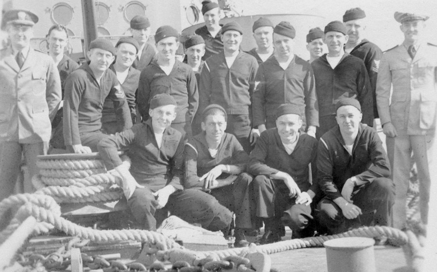 A portion of the crew of USS PCE 881 which patrolled the coast of Alaska